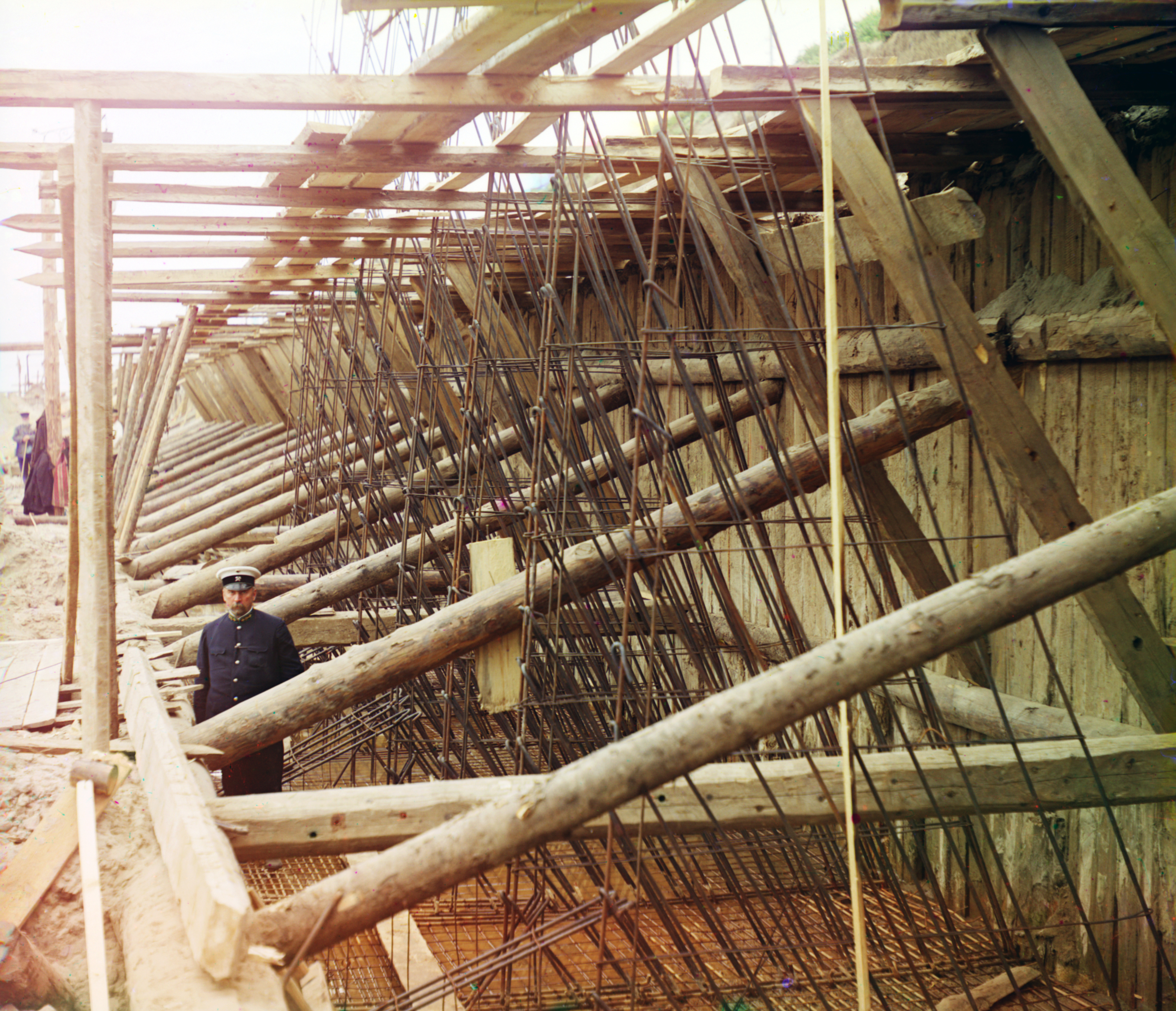 Museum. Iona's room. Rostov Velikii